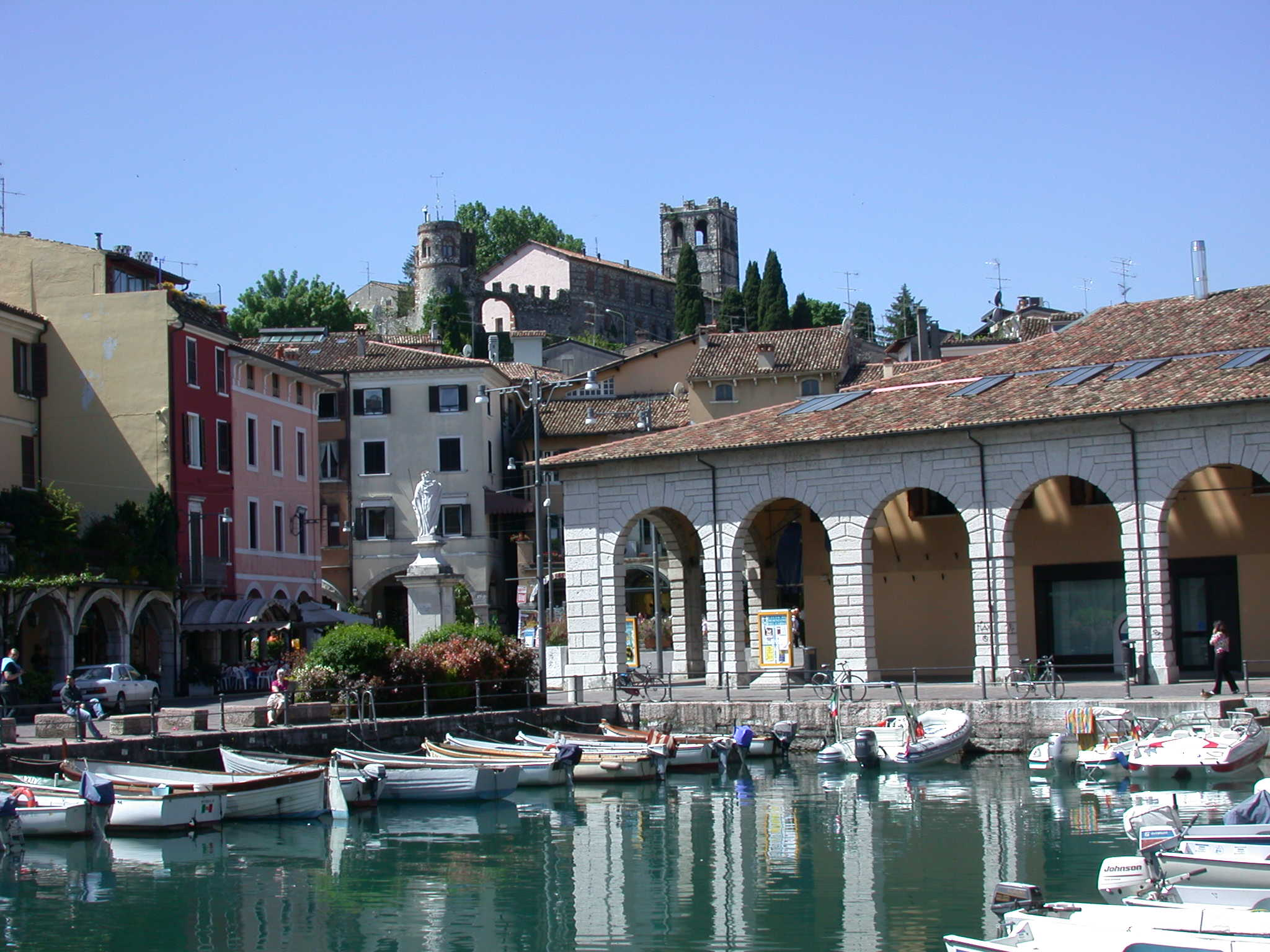 It shows the old port of Desenzano, a city at the lake Garda. Source: photo uploaded by User:RicciSpeziari. Photographer: Basilio Speziari